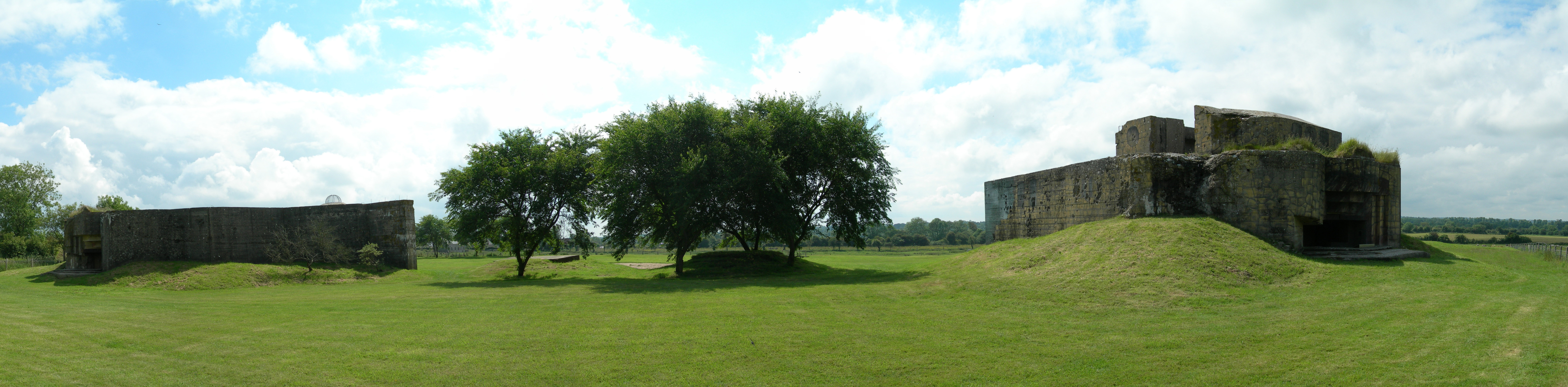 Azeville Battery Panorama